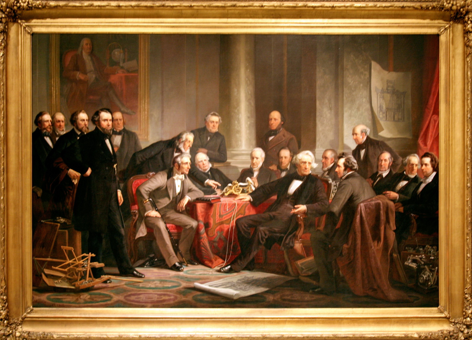 Oil on canvas portrait entitled Men of Progress; original size without frame 128.3×190.5 cm. From left to right: William Thomas Green Morton, James Bogardus, Samuel Colt, Cyrus Hall McCormick, Joseph Saxton, Charles Goodyear, Peter Cooper, Jordan Lawrence Mott, Joseph Henry, Eliphalet Nott, John Ericsson, Frederick Sickels, Samuel F. B. Morse, Henry Burden, Richard March Hoe, Erastus Bigelow, Isaiah Jennings, Thomas Blanchard, Elias Howe. On the wall in the background left, Schussele painted a painting of Benjamin Franklin.